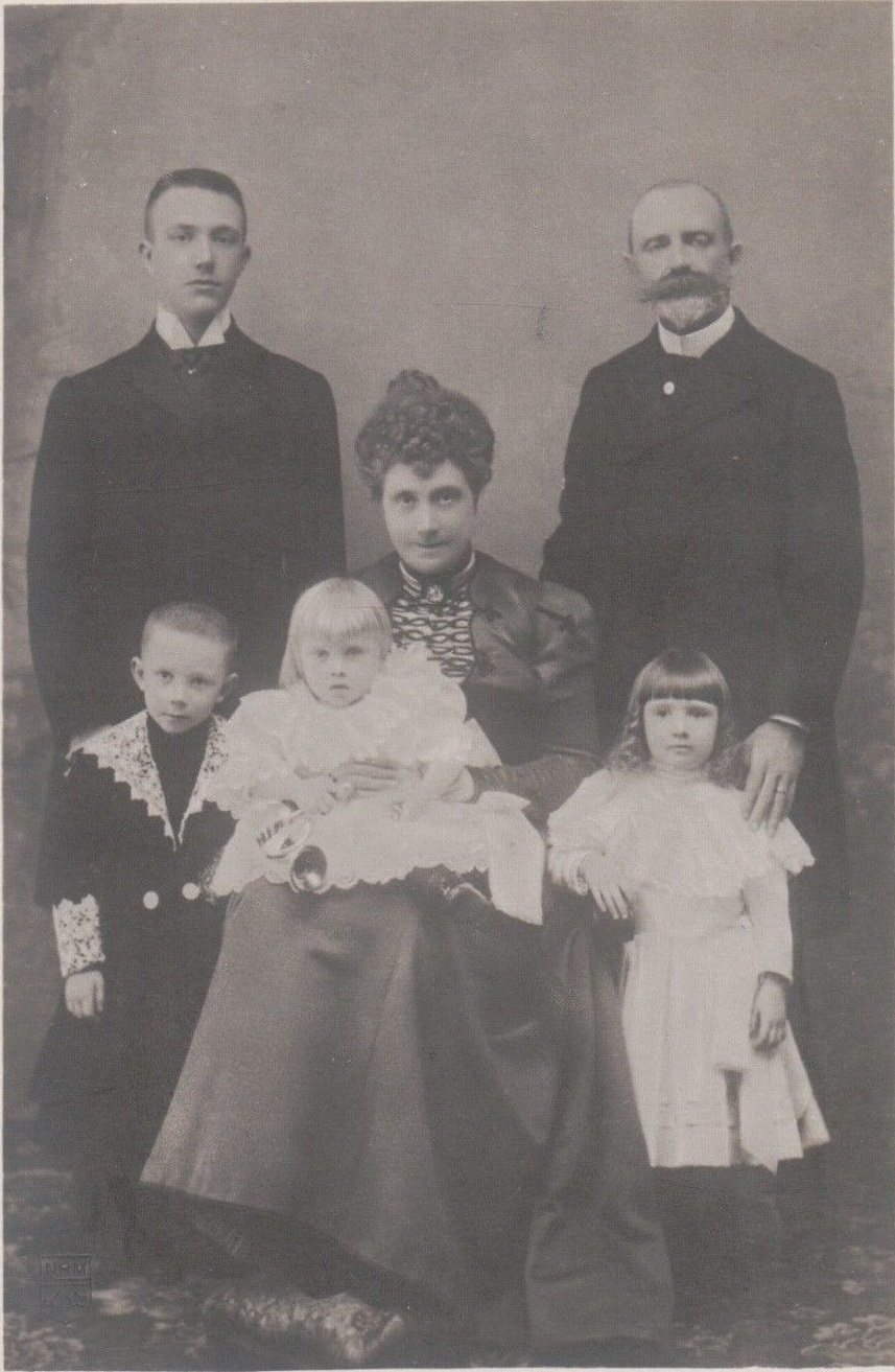 Thomas and Isabella (Duke and Duchess of Genoa) with their children: Ferdinando, Filiberto, Maria Bona and Adalberto